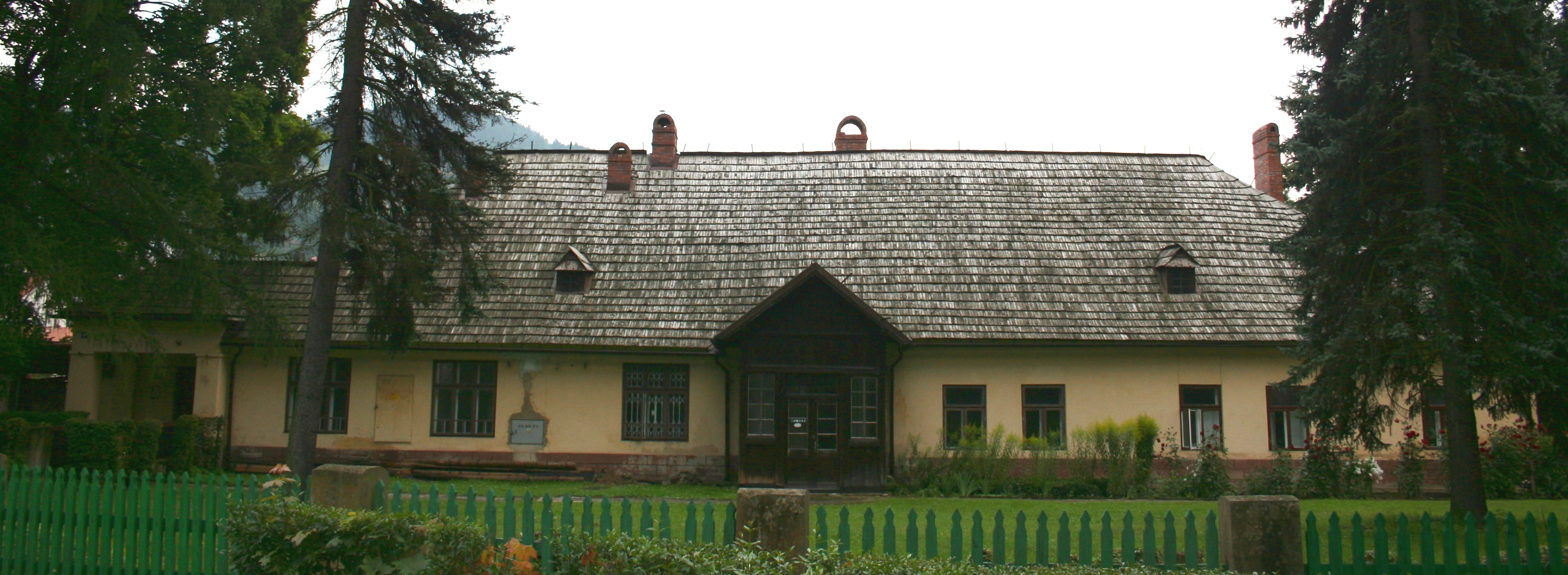 The manor house in Muszyna, Poland